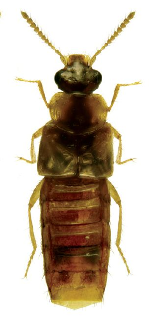 Dorsal view of Gyrophaena (G.) vitrina (apical part of abdomen removed).